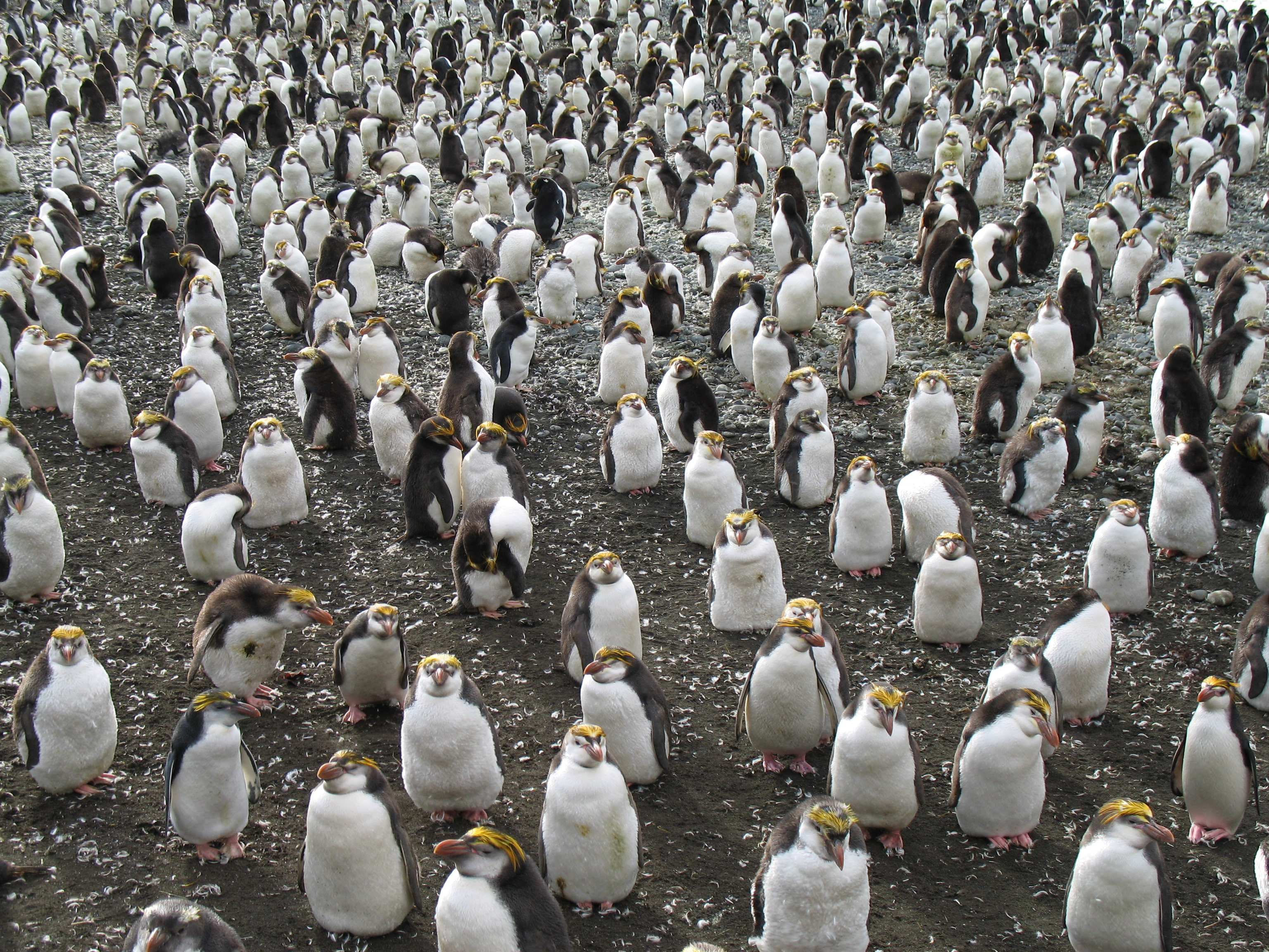 Close up photo of a Royal penguin rookery on Macquarie Island